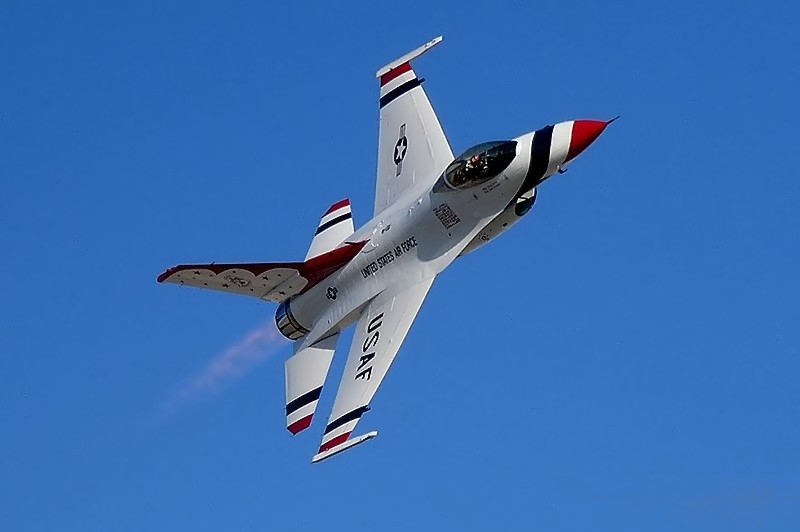 A USAF Thunderbird performs a sneak pass at high speed and full afterburner at the Nellis airshow, 2004.